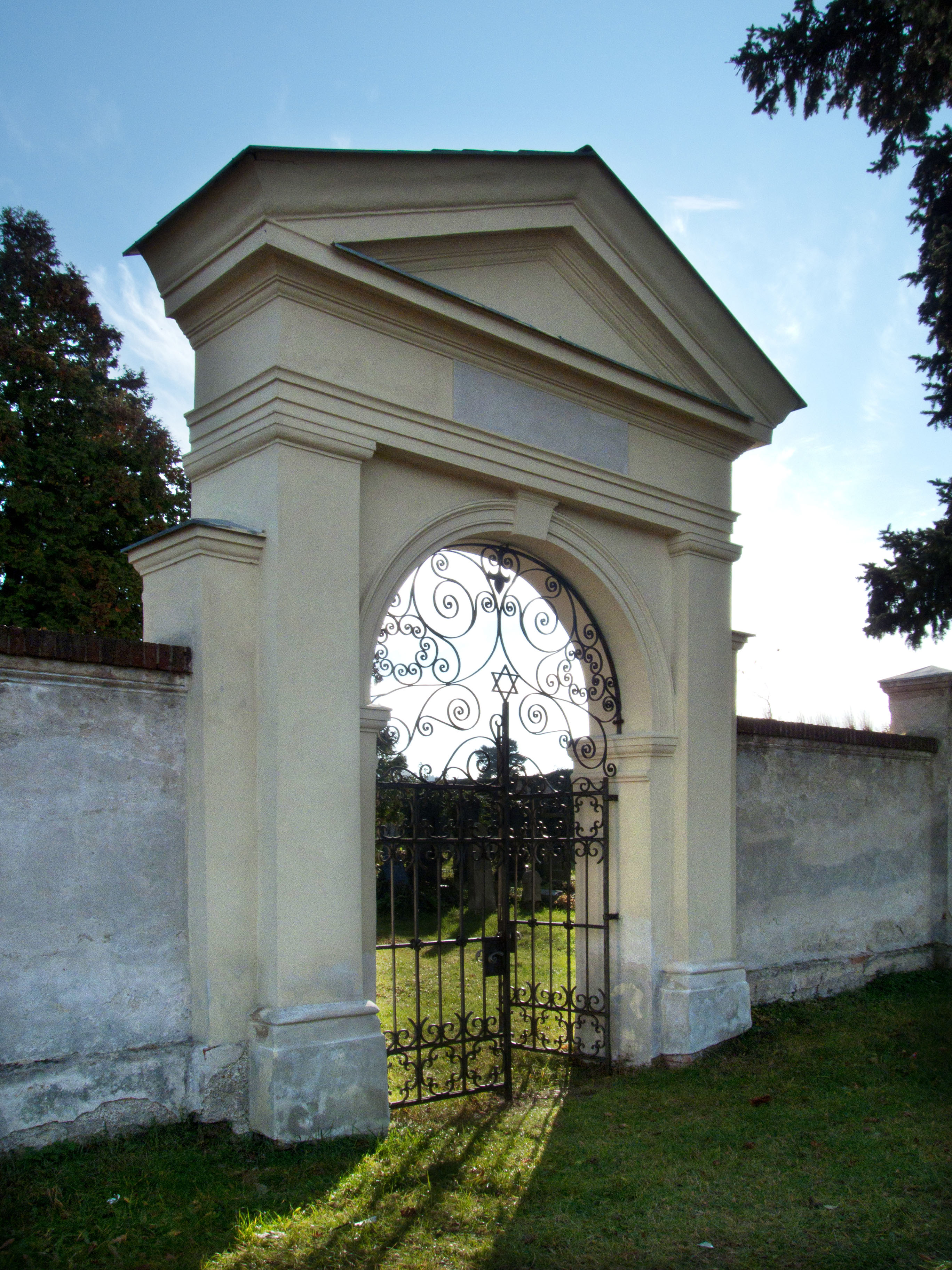 Gate of the Jewish cemetery in the town of Český Krumlov, South Bohemian Region, Czech Republic